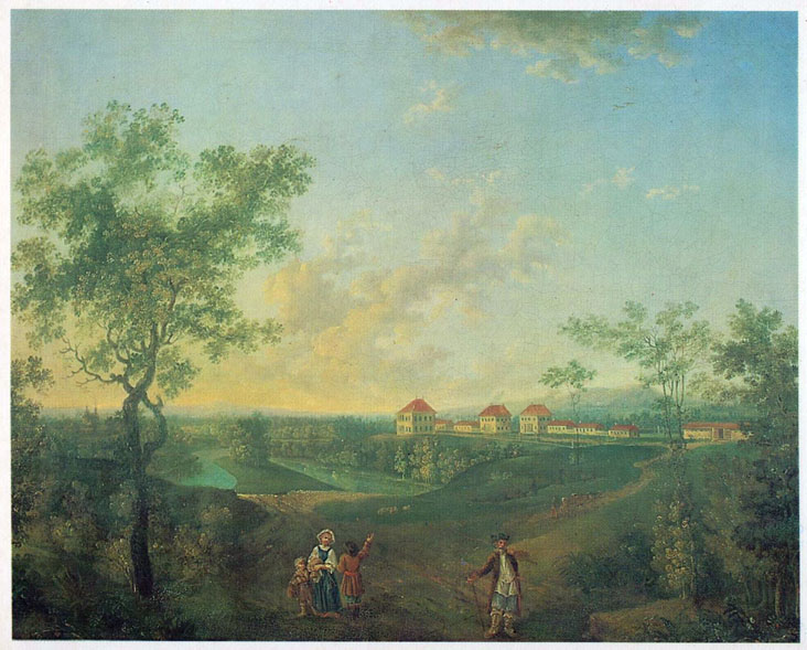 Jacob Filimonov (1771-1795). Type of estate outbuildings Nadezhdino. Executed in 1794. Oil on canvas. 71x90 cm The State Historical Museum